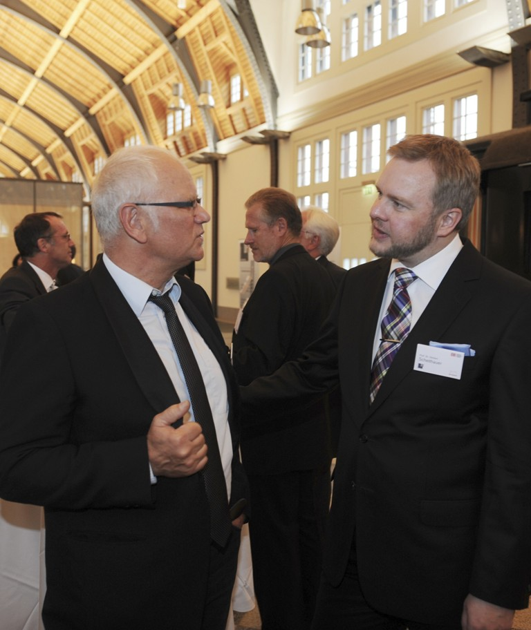 Manfred Günther (left) and Herbert Scheithauer (right) in the station hall of the Kaiserbahnhof of the Potsdam Park Sanssouci railway station at a reception due to the 10-year anniversary of the Stiftung Deutsches Forum für Kriminalprävention (DFK).